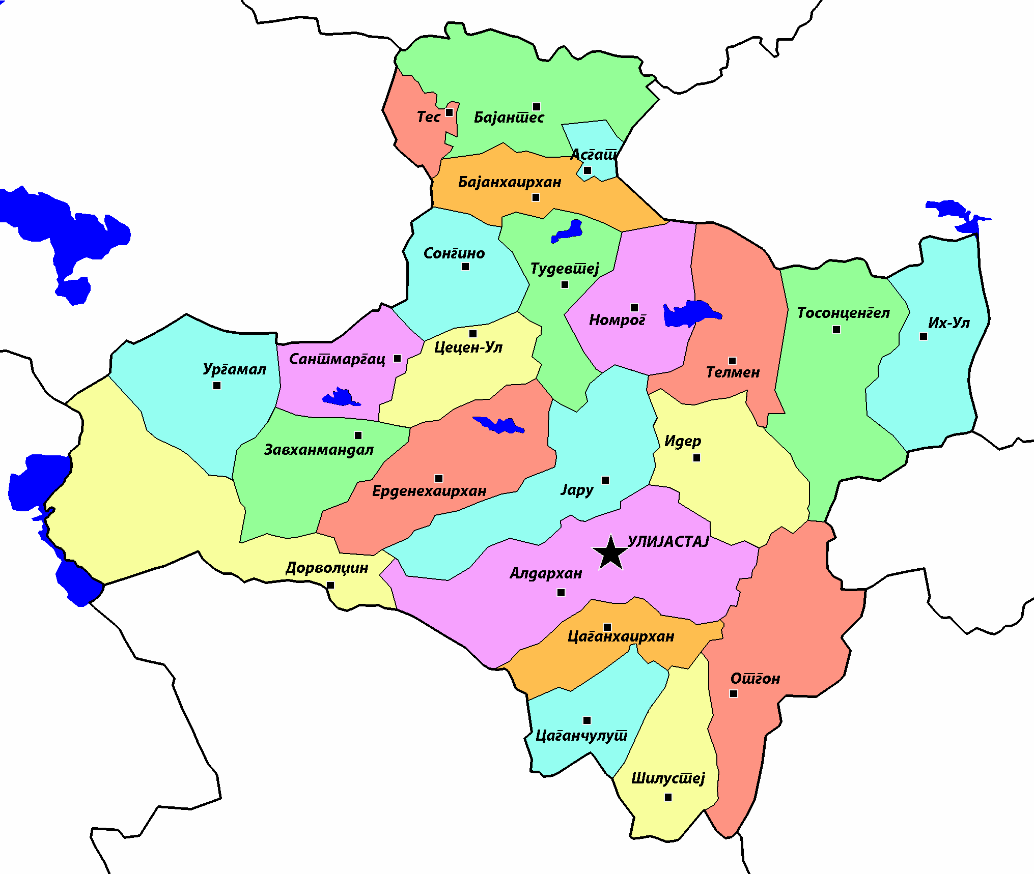 Translated map of Zavkhan Sum into Macedonian language